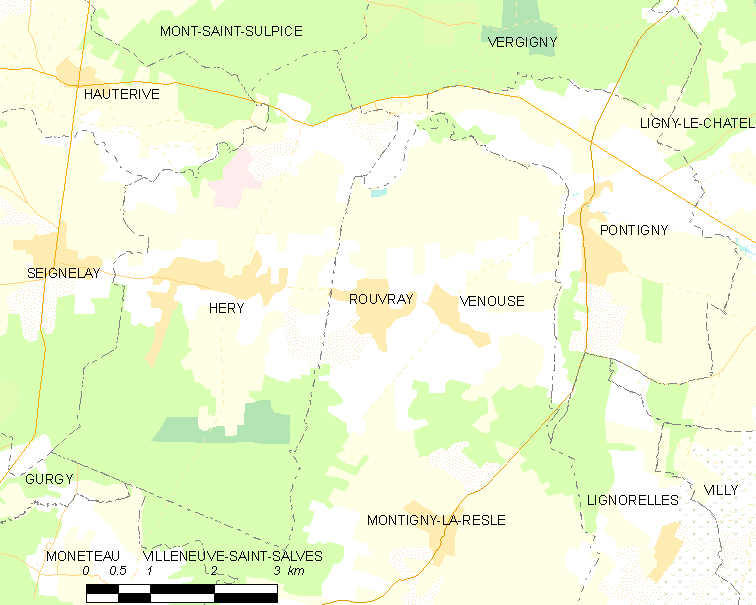 Map of French municipality Rouvray